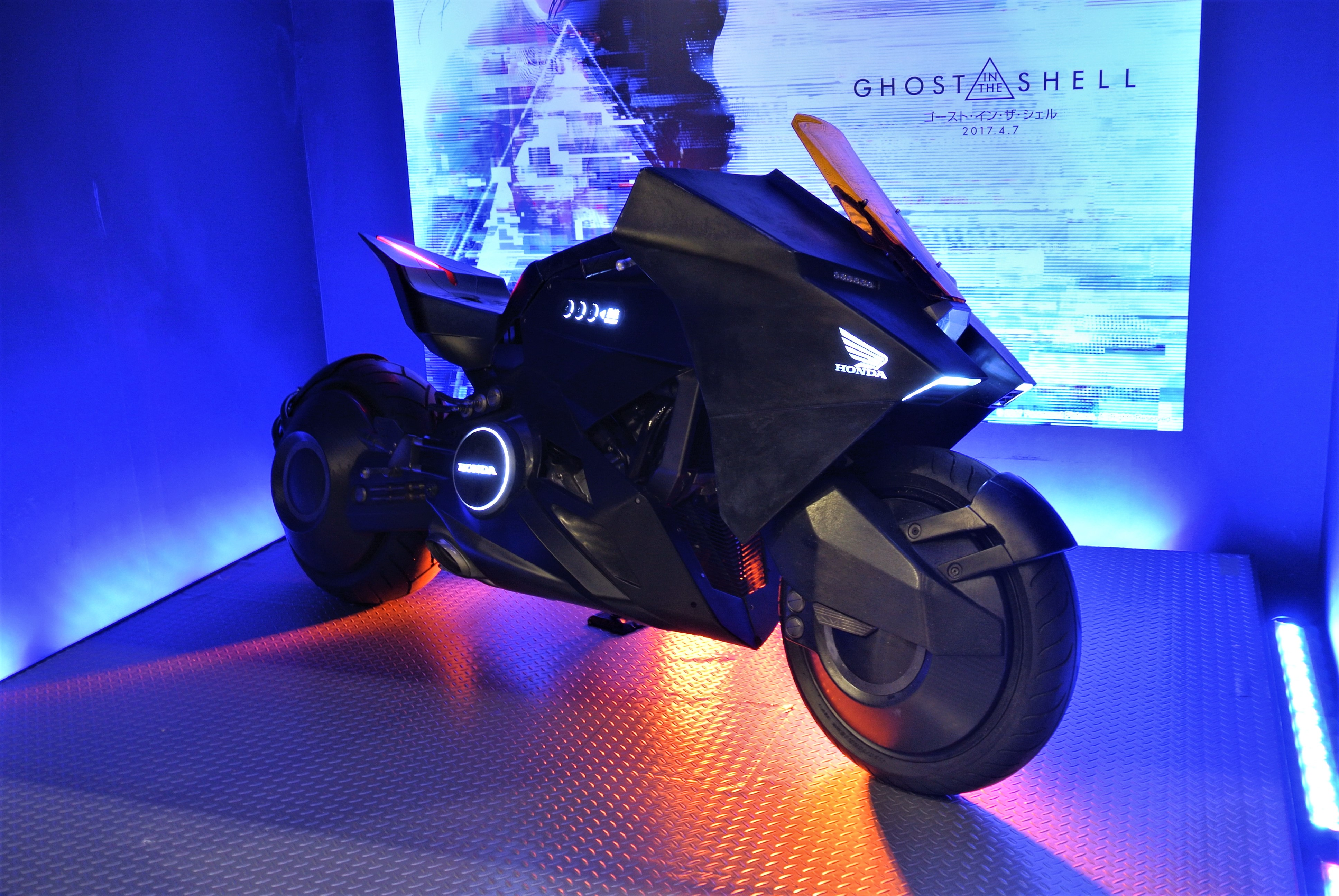 Used in the Movie Ghost In The Shell NM4 at the Tokyo Motorcycle Show 2017.